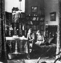 Johan Dijkstra and his wife Marie Dijkstra-van Veen in their living room in Groningen (address Grote Spilsluizen 1e Drift 3a), around 1924